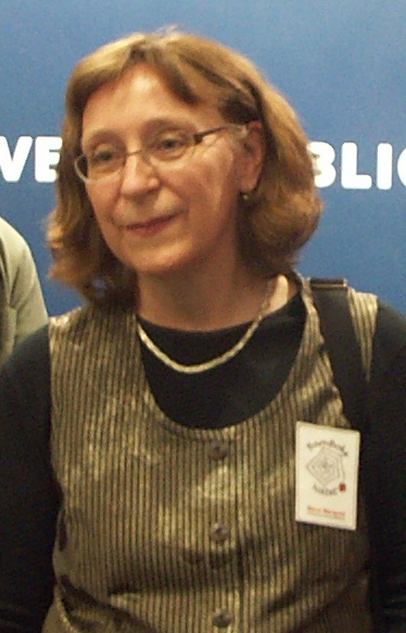 Swedish childrenäs book author Maud Mangold